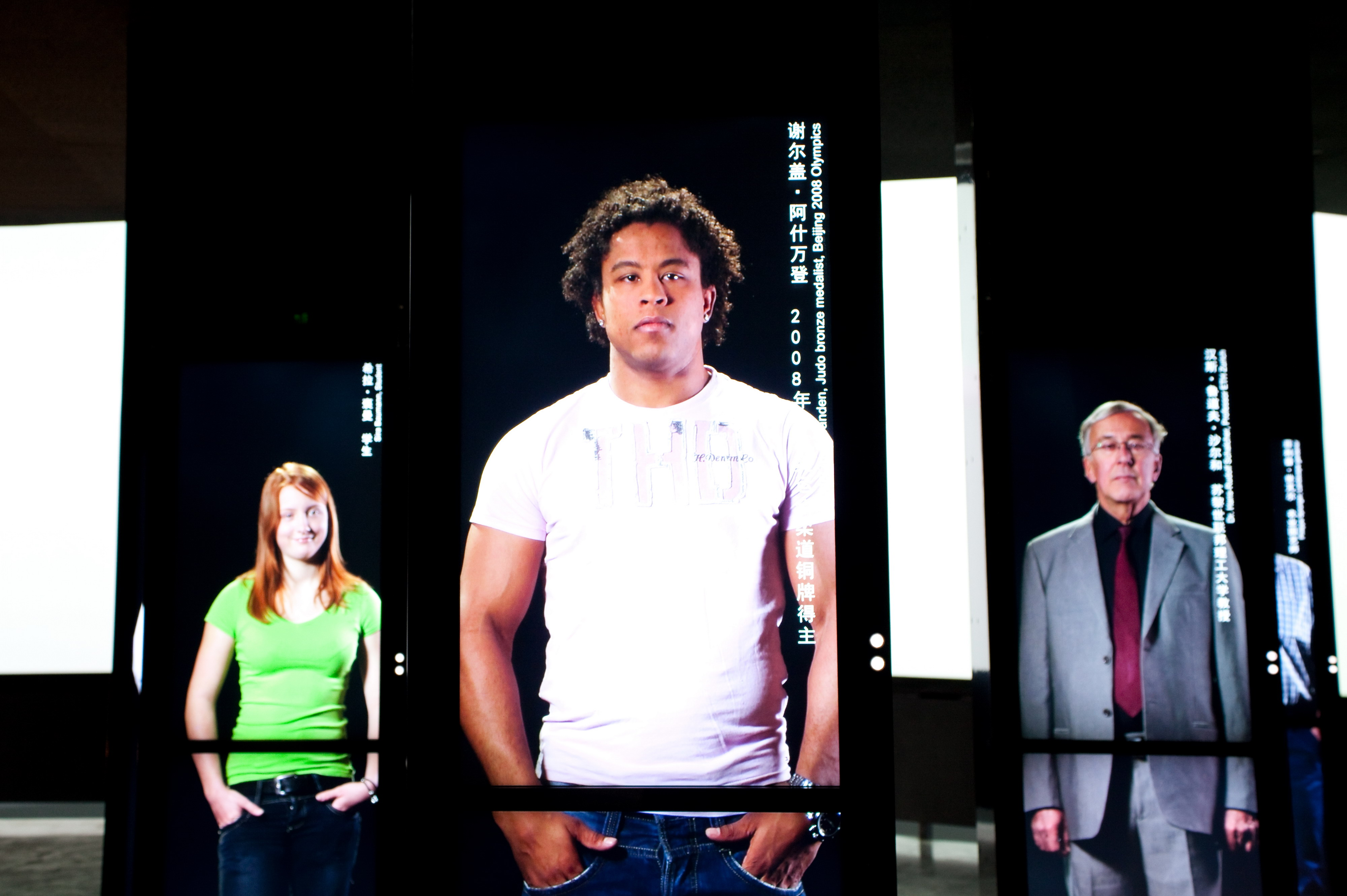 Swiss Pavilion Expo 2010 Shanghai: Steles from the installation "Face to Face"